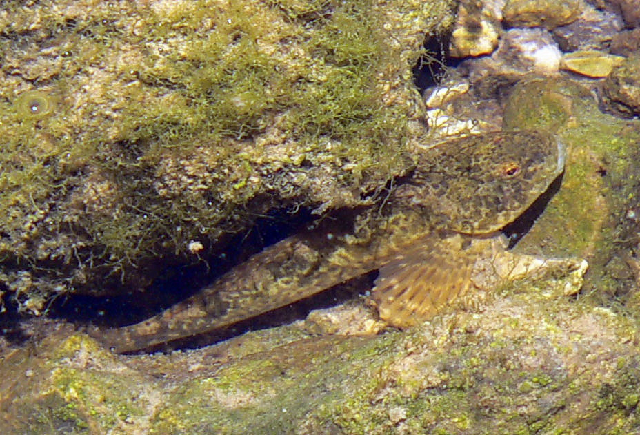 European bullhead close to Ogulin